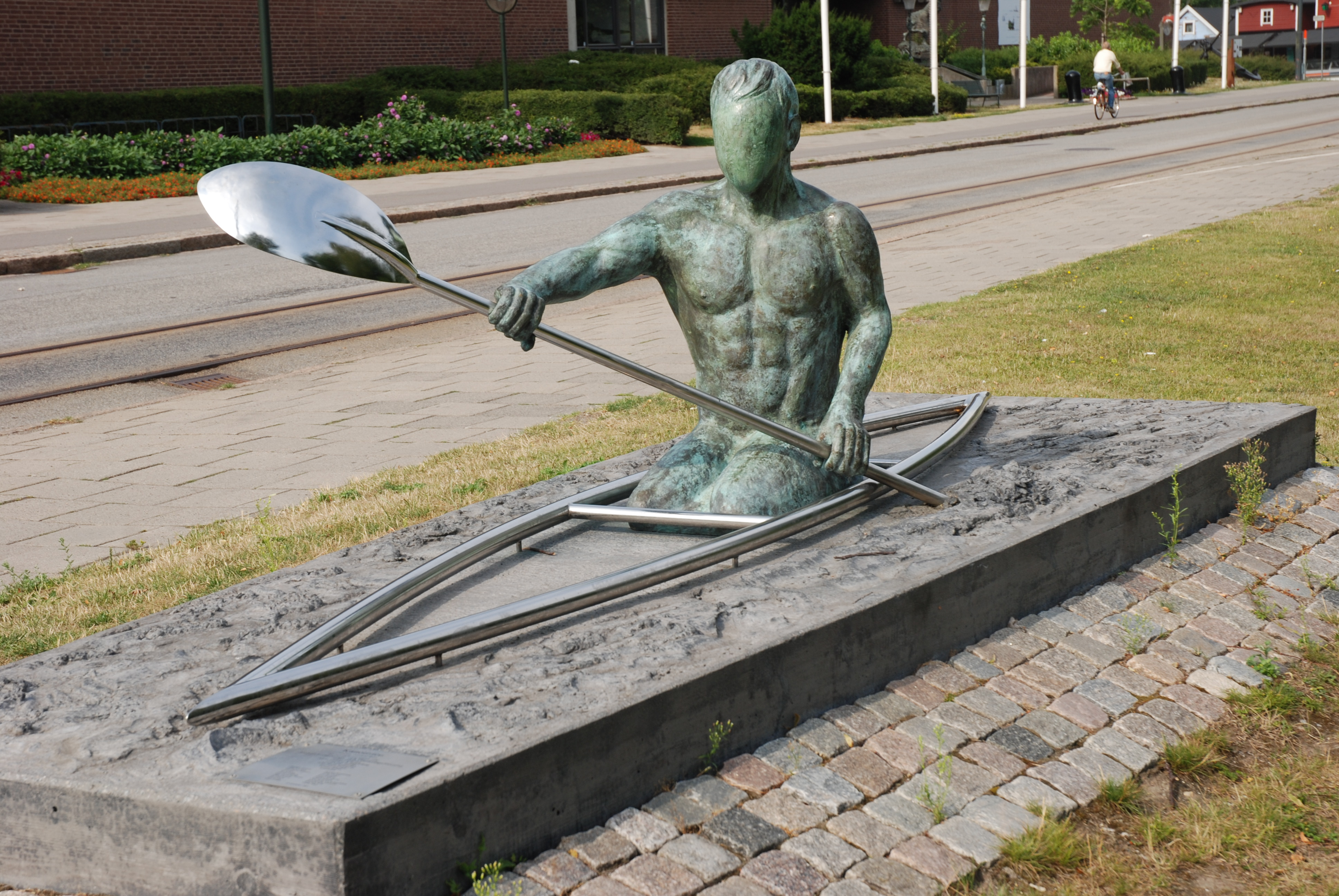 Carl-Bertil Widells Kanotisten, utanför Malmö Kanotklubb, mitt emot Tekniska museet.